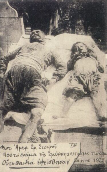 Smyrna massacre, 1922. Elders and children were massacred together.